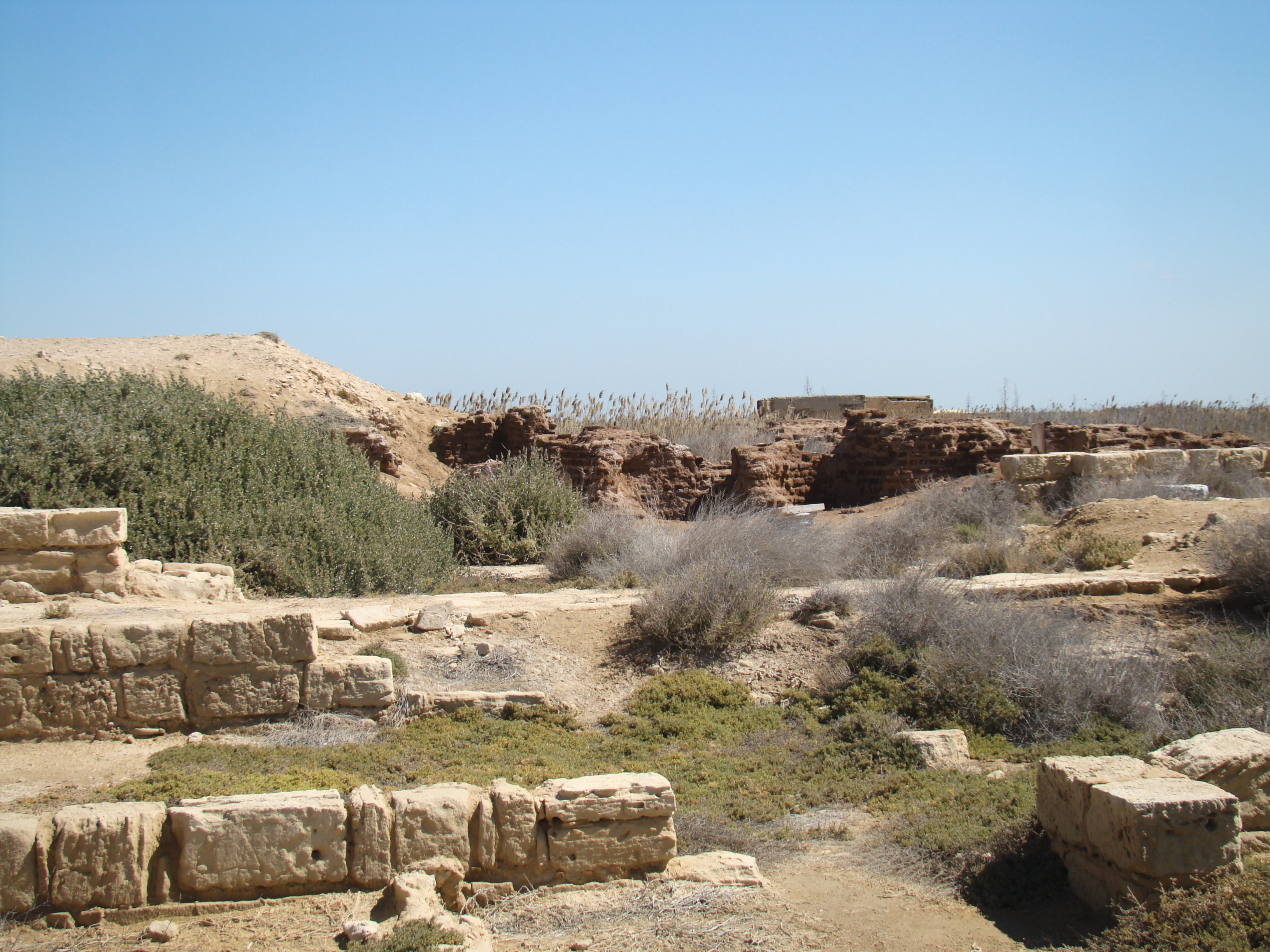 AWIB-ISAW: Baths at Abu Mena (IV) A view of the bath complex that served the pilgrim community at Abu Mina. The baths at Abu Mina were extremely important to the ancient pilgrimage site because the water was supposed to have had curative powers. by Iris Fernandez (2009) copyright: 2009 Iris Fernandez (used with permission) photographed place: (Abu Mena) [ Published by the Institute for the Study of the Ancient World as part of the Ancient World Image Bank (AWIB). Further information: [